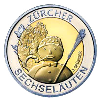 Swiss Commemorative Coin 2001 CHF 5 obverse